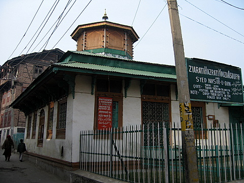 This building and place is called Rozabal (grave of the prophet). It is located in Srinagar in Kashmir. In the interior there is a shrine with a tomb below: the grave of Yuz Asaf which is translated as Jesus.